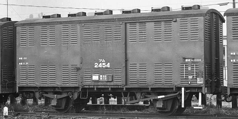 JNR Tsumu 1000 ventilated van Tsumu 2454 at Oga Station